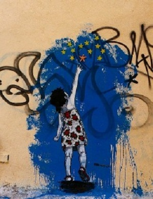 street project